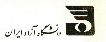 آرم دانشگاه آزاد ایران